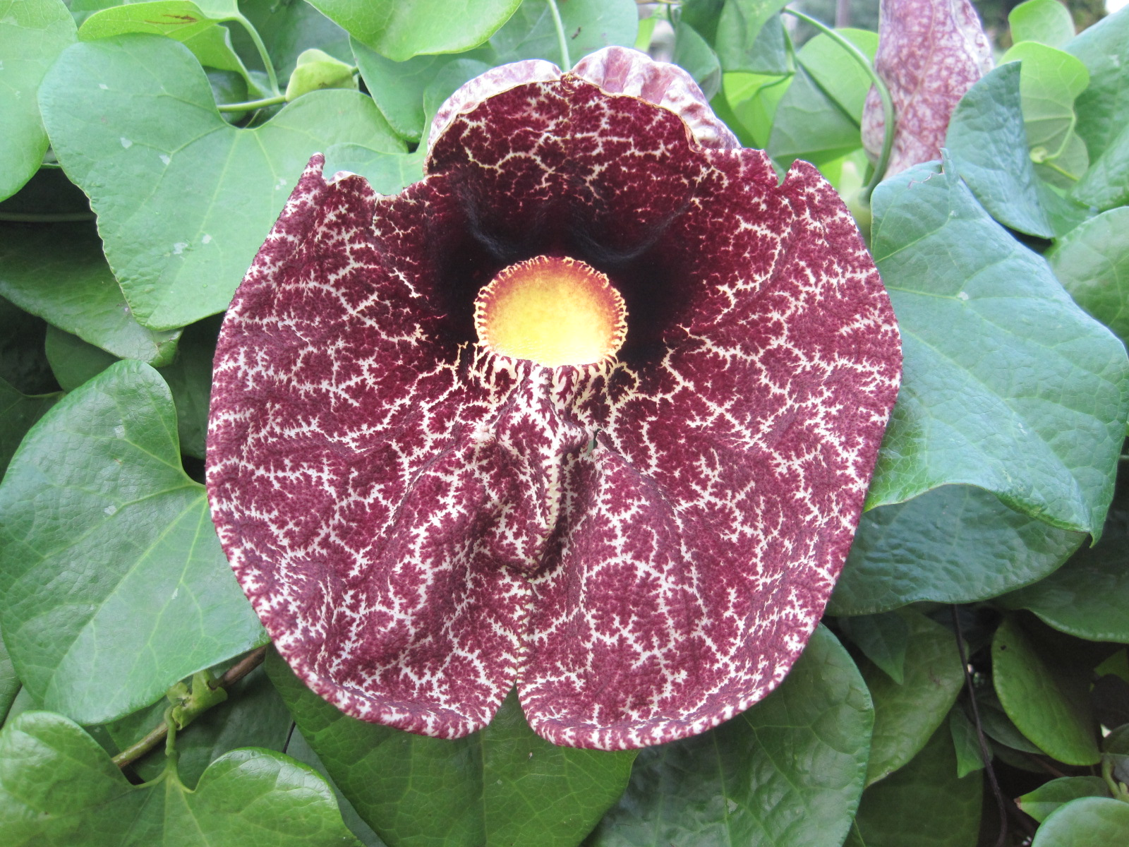 Face of Aristolochia littoralis (Calico Flower, Elegant Dutchman's Pipe) on University of Hawaii at Manoa campus